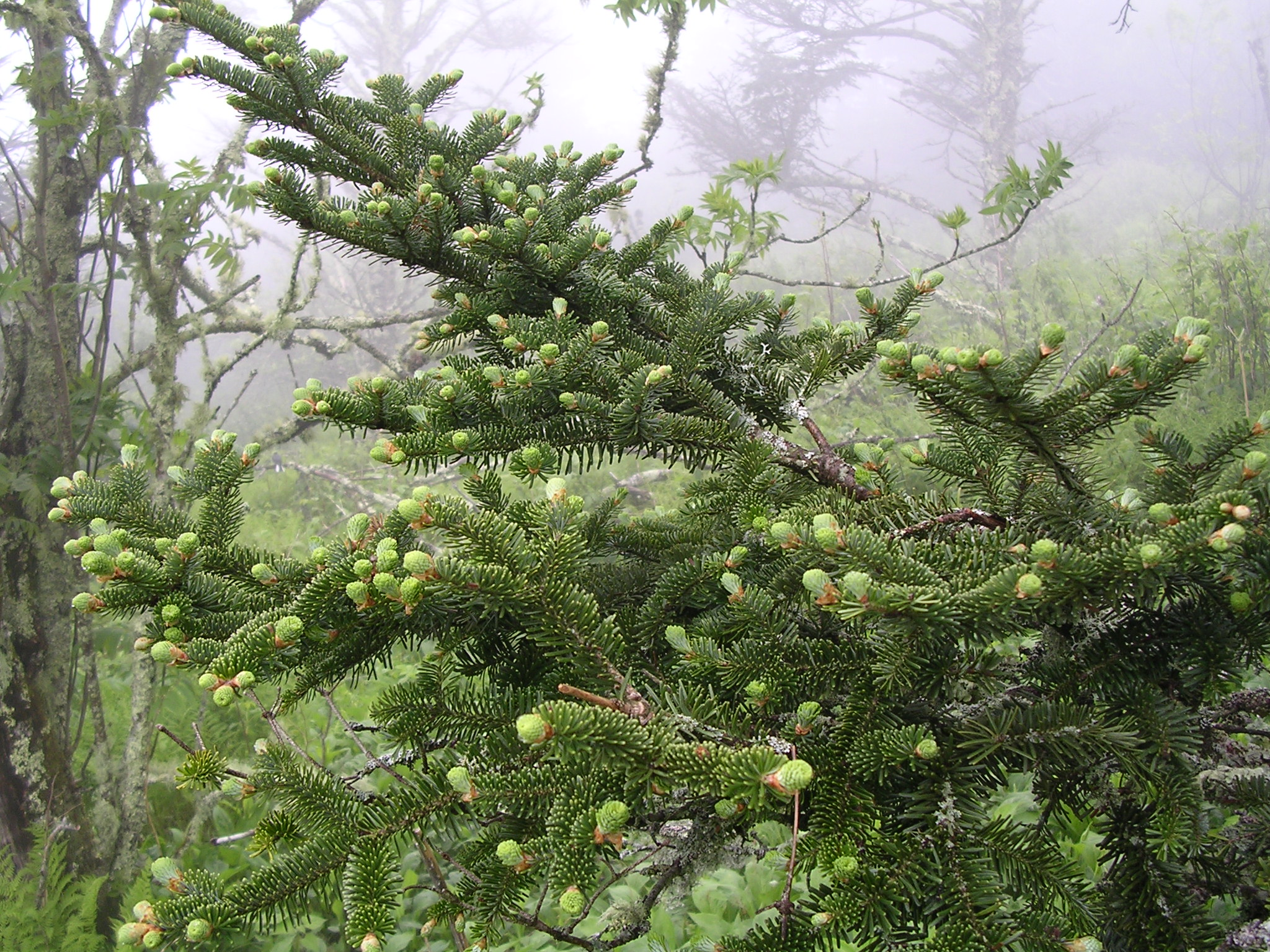 Abies fraseri branch, near Waterrock Knob by the Blue Ridge Parkway, North Carolina.